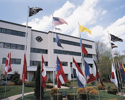 Black Box Corporation Headquarters in Lawrence, Pennsylvania.